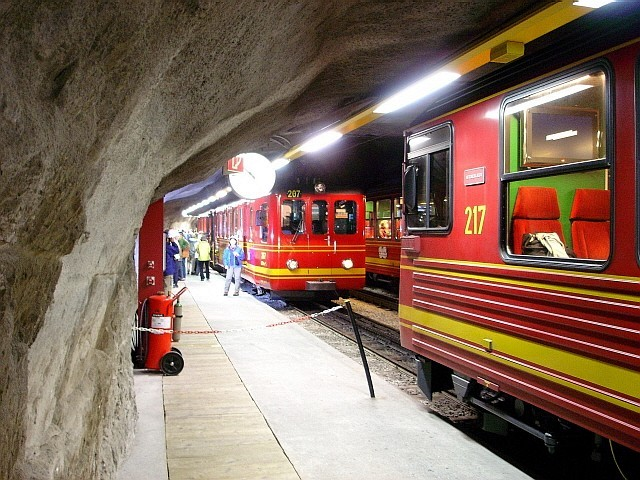 Jungfraubahn